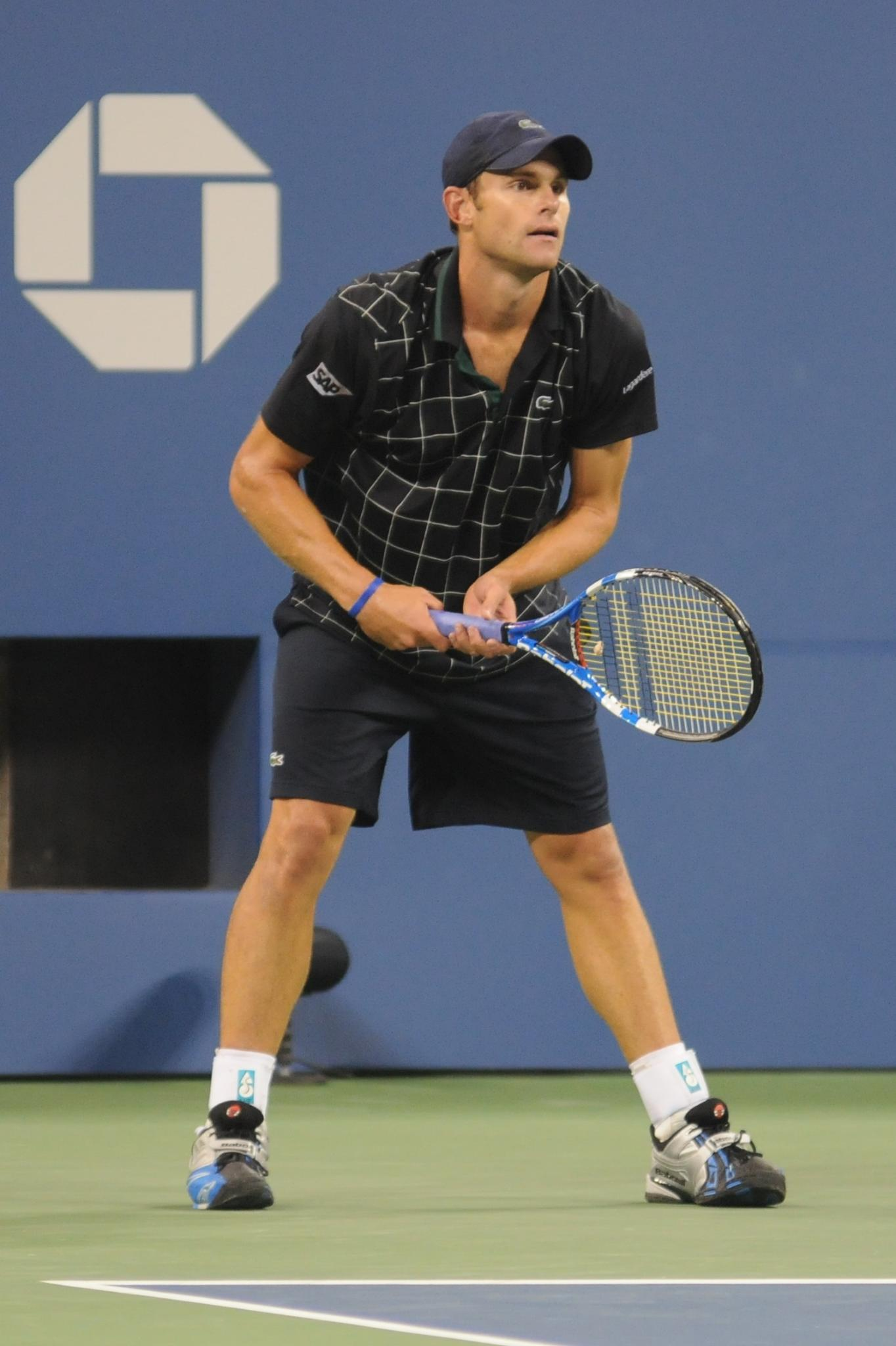 Andy Roddick at the 2009 US Open